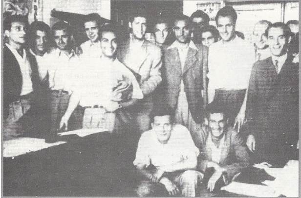 Karres squad in 1947.